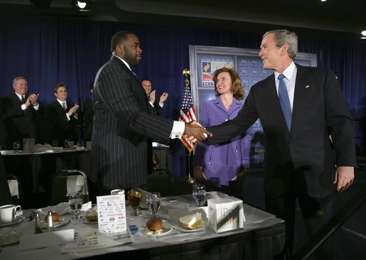 President George W. Bush greets Detroit Mayor Kwame Kilpatrick after delivering remarks at the Detroit Economic Club in Detroit, Michigan, Tuesday, Feb. 8, 2005. Also pictured at center is Detroit Economic Club President Beth Chappell. White House photo by Eric Draper